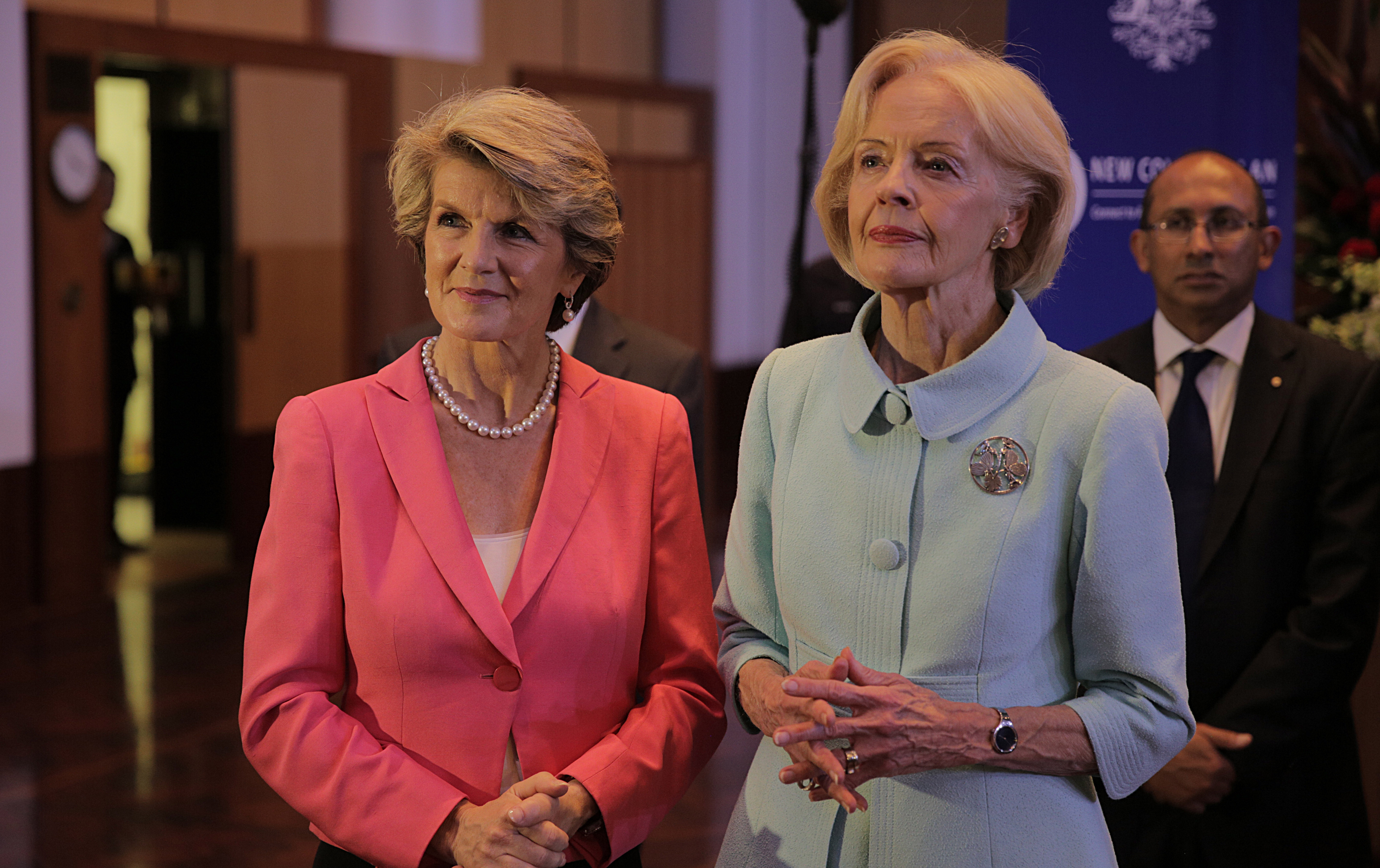 Foreign Minister Julie Bishop and the Governor-General Her Excellency the Honourable Quentin Bryce AC CVO.